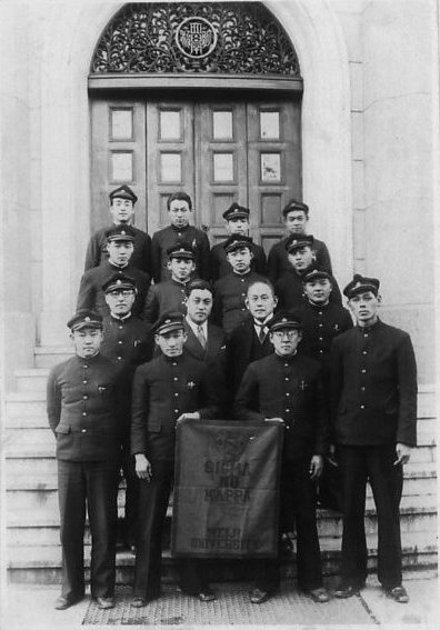 ΣNK（Ffraternity in Meiji University）